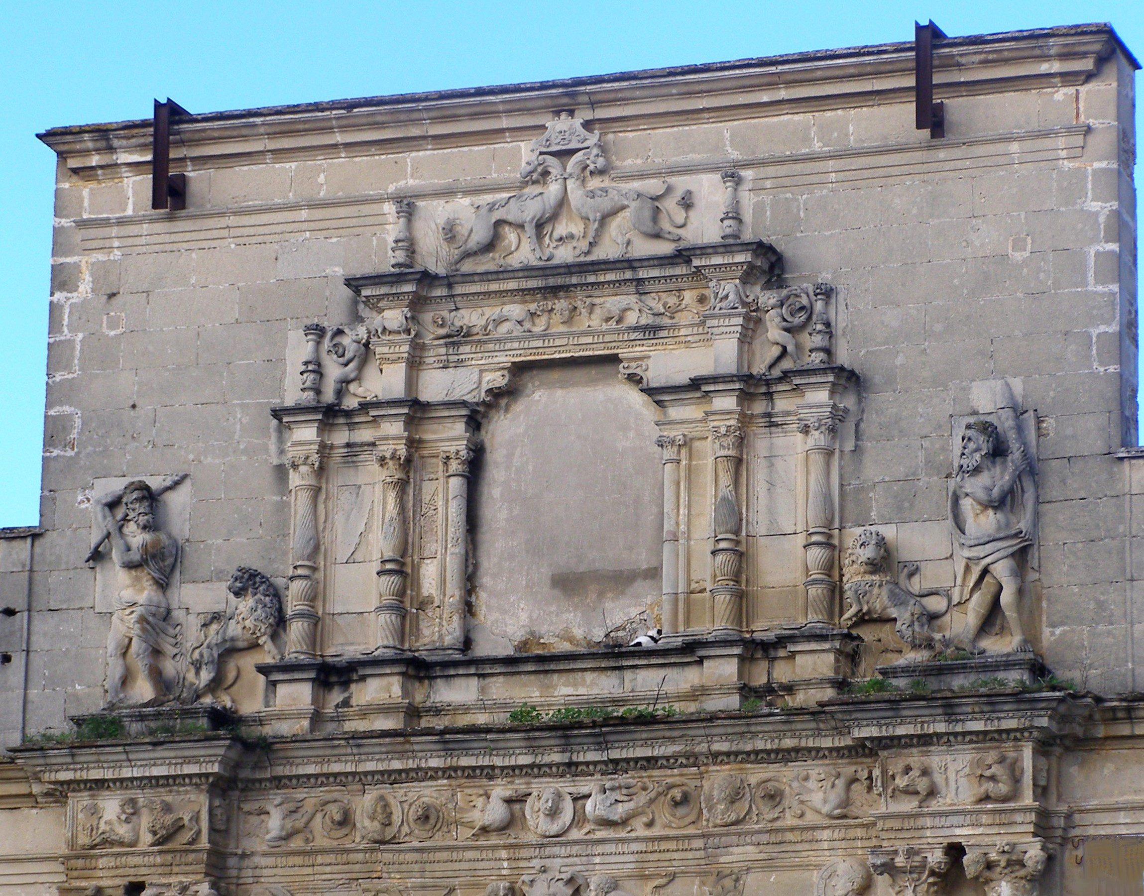 Façade Palace Riquelme Jerez de la Frontera